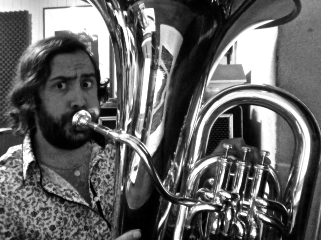 Anthony-Cedric Vuagniaux, composer, musician